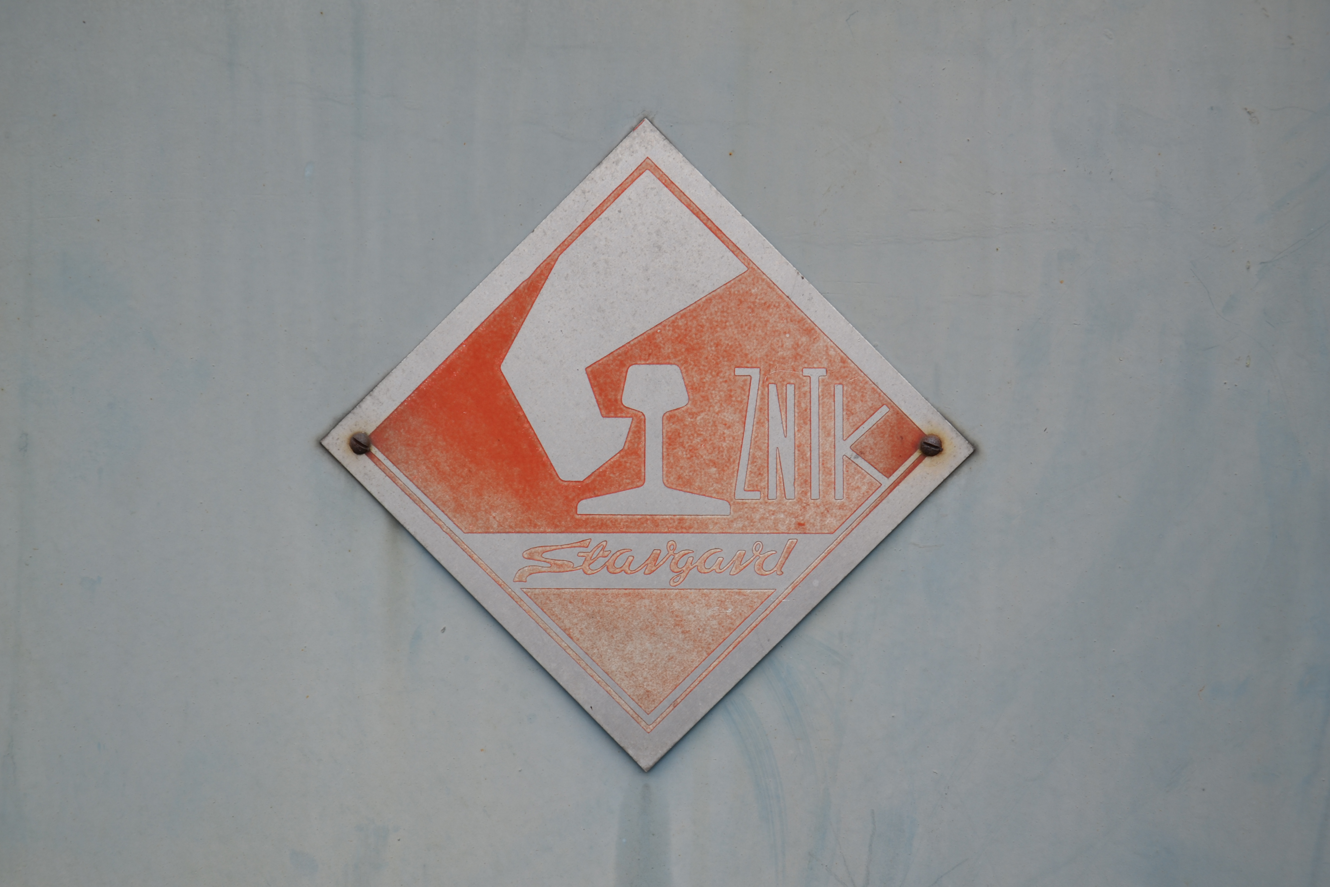 Logo ZNTK Stargard This photo was taken during Railway Wikiexpedition 2015 set up by Wikimedia Polska Association in cooperation with Fundacja Grupy PKP. You can see all photographs in category Wikiekspedycja kolejowa 2015.